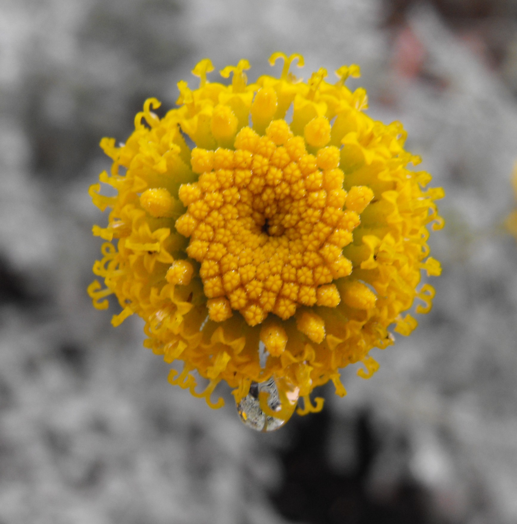 Santolina chamaecyparissus in the Water Conservation Garden at Cuyamaca College in El Cajon, California, USA. Identified by sign.